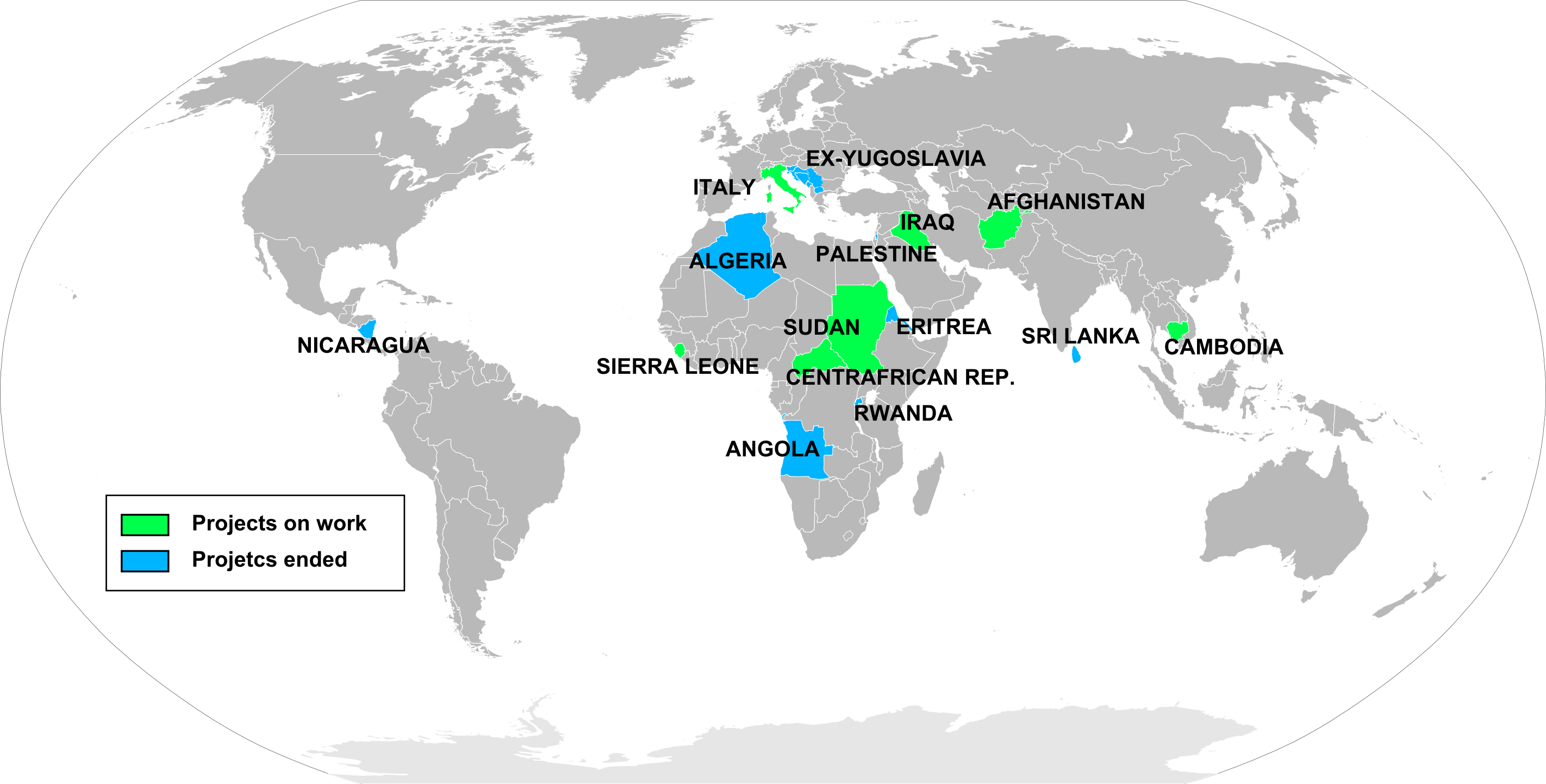 Places where Emergency, an Italian NGO, is working or worked in the past. The list is: Afghanistan Algeria Angola Cambodia Eritrea Ex-Yugoslavia Iraq Italy Palestine Rwanda Sierra Leone Sri Lanka Sudan Central African Republic